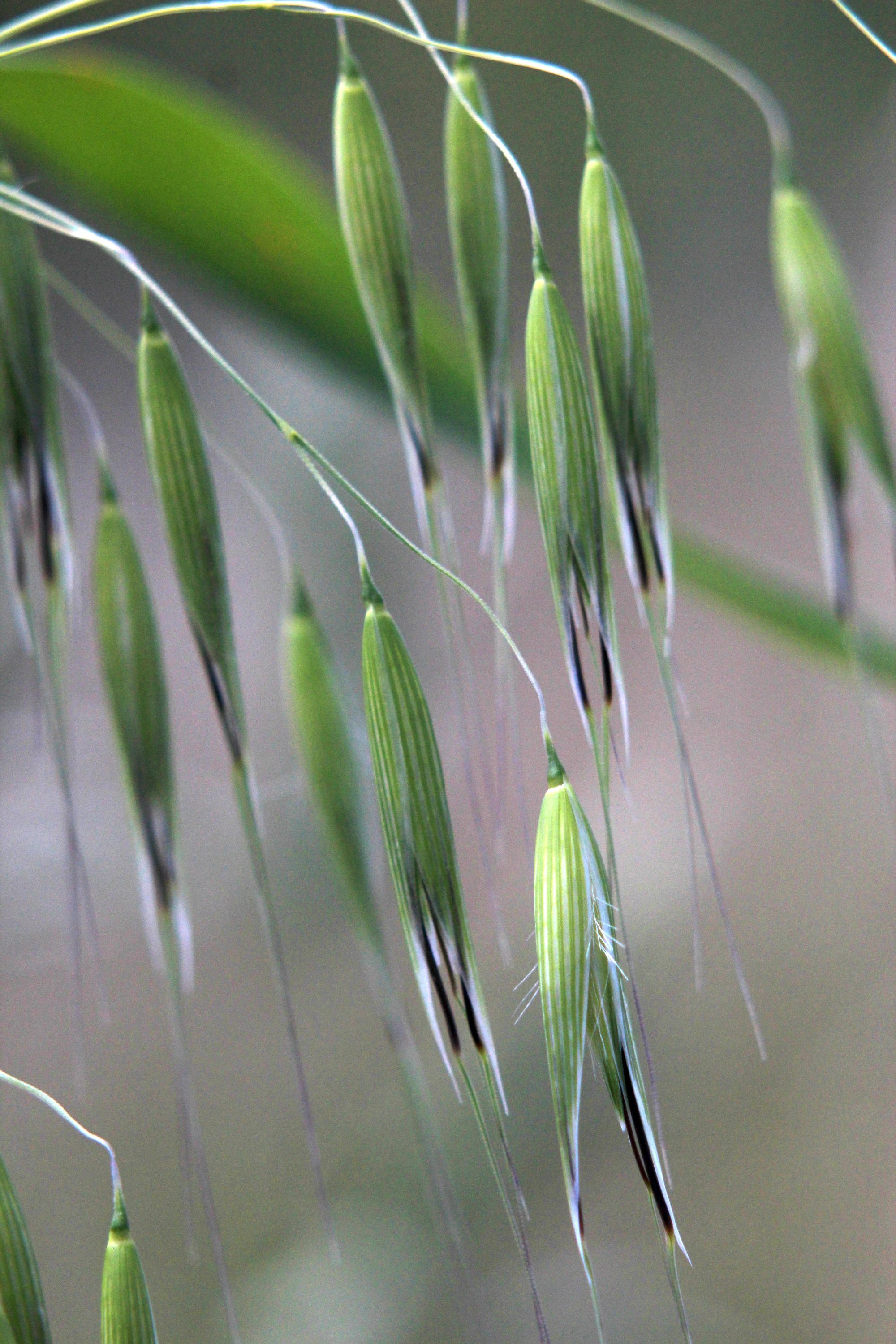 I used my 55-200mm lens with a 25mm extension tube, manual focus Bababi Djinanang is a native grassland reserve in Fawkner, near the end of Jukes Road and Merri Creek. The site is fenced but is accessible to walkers. The native grasslands is an imporatant ecosystem which once stretched for hundreds of miles across the basaltic plains west of Melbourne. With development only about 1% of these grasslands are left in small pockets which harbour an important diversity of native flora and fauna species. More information on the grasslands of the merri Creek catchment from the Merri Creek Management Committee. See also the Canberra based Friends of Grasslands